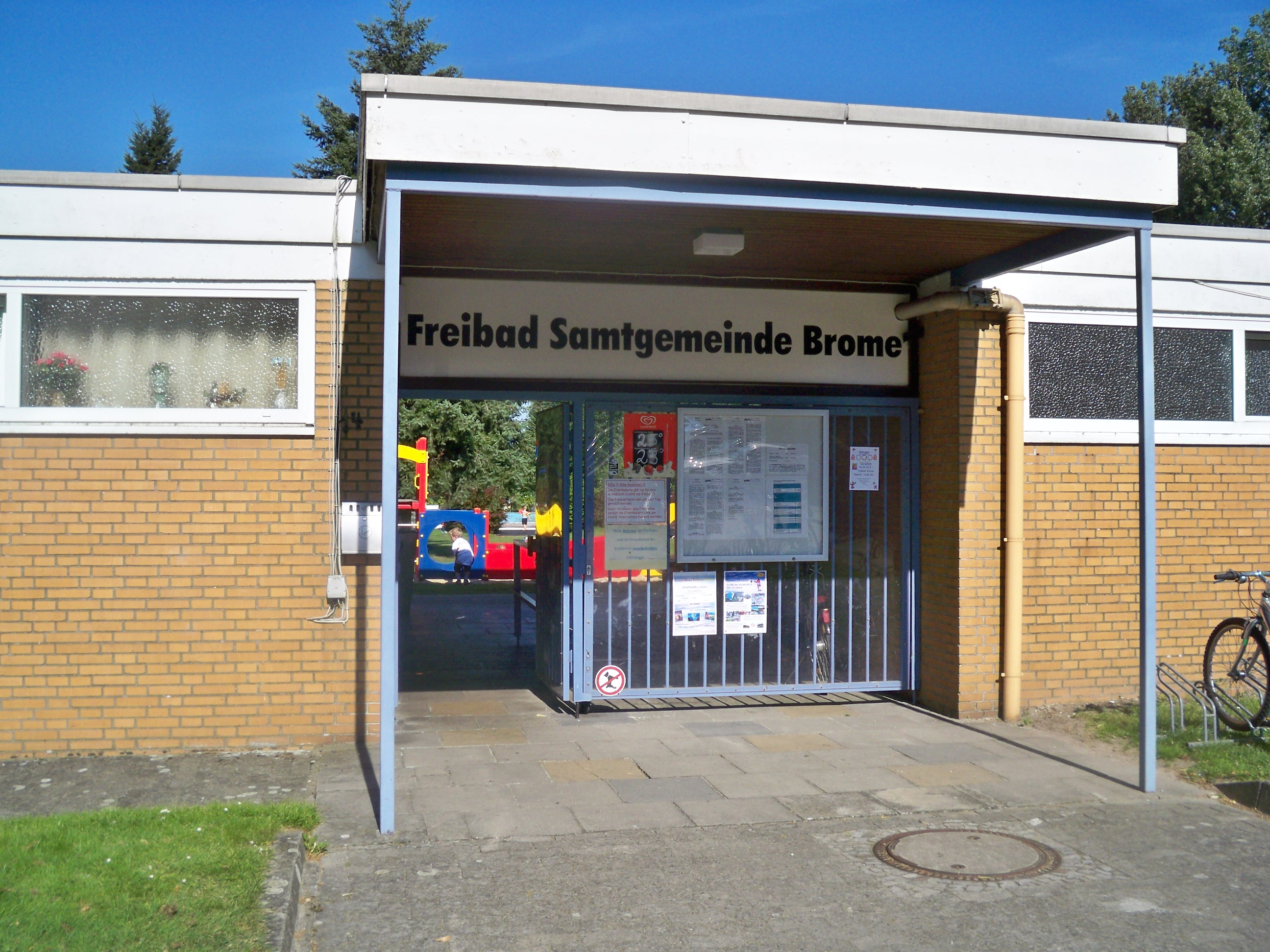 Brome, Lower Saxony, public bath, entrance